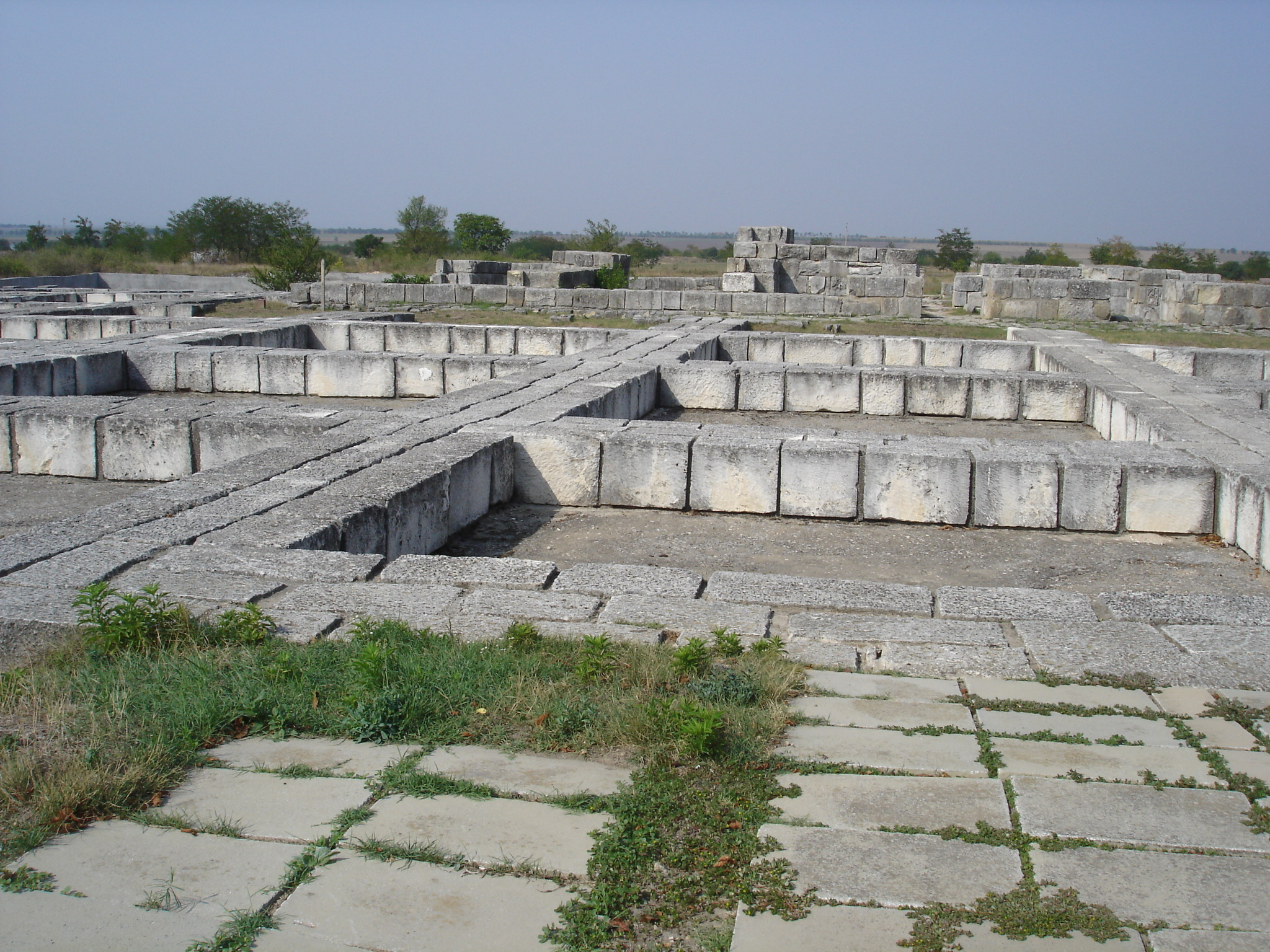 Ruins in Fortress of Pliska - First Bulgarian Capital